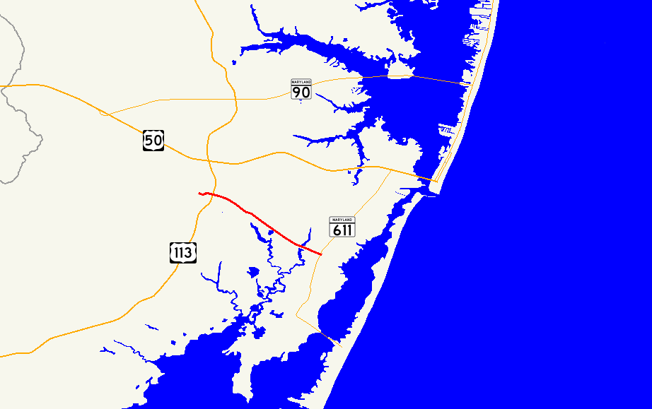 Map of Maryland 376